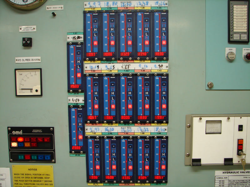 SAAB radars are used to monitor tank levels onboard the VLCC Algarve. The levels are shown on the monitor near the cargo valve and pump controls. The information is sent to a program to continuously calculate the vessel's drafts and stresses.